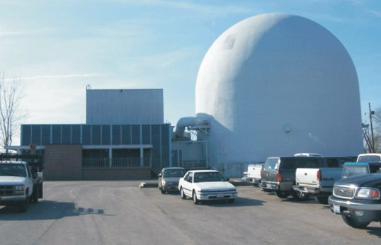 Piqua Nuclear Generating Station. Above ground portion of the decommissioned reactor complex and auxiliary building.